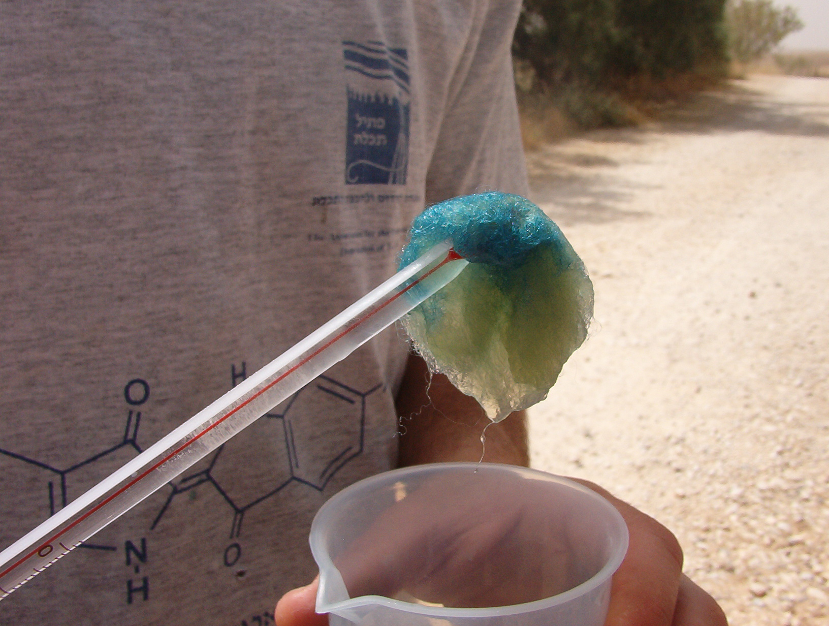 Some wool dipped in techelet solution, turning blue in the sunlight outside P'til Techelet in Israel.